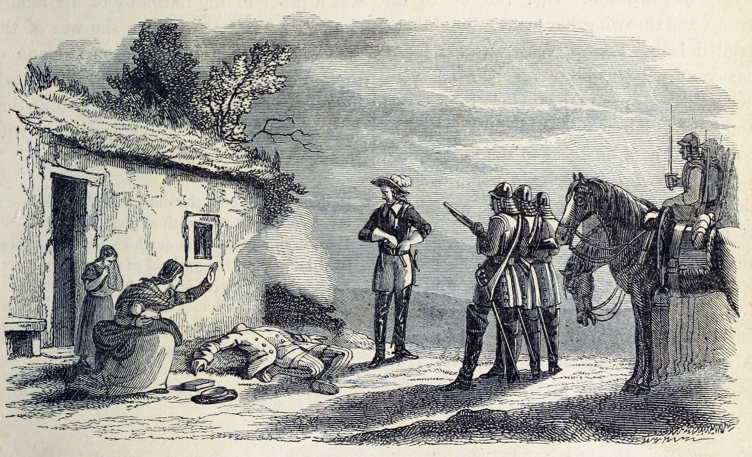 the martyrdom of John Brown of Priesthill